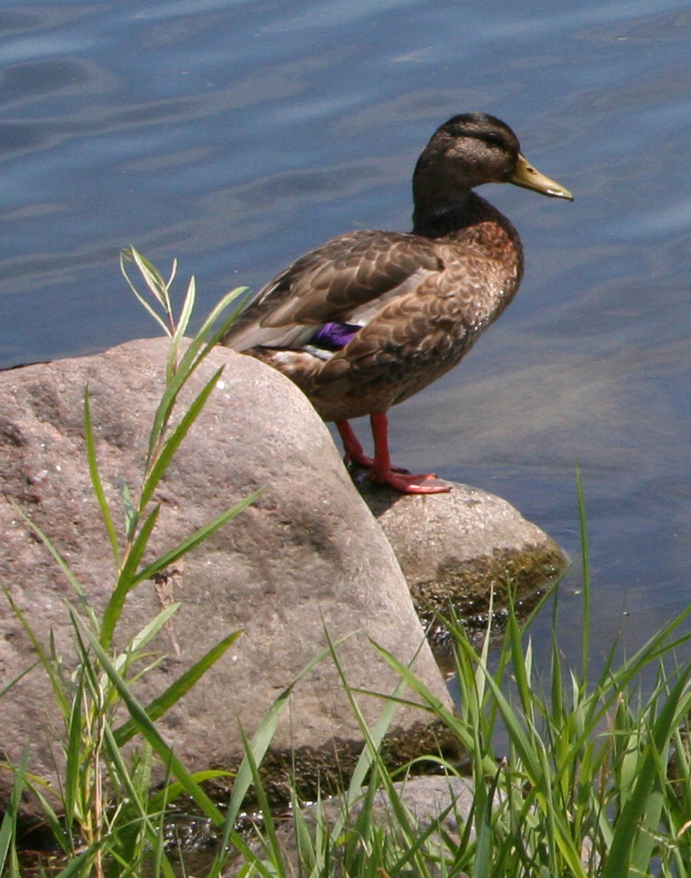 Anas platyrhynchos eclipse drake (hybrid with farmyard duck breed) at Lake Calhoun, Minneapolis, Minnesota